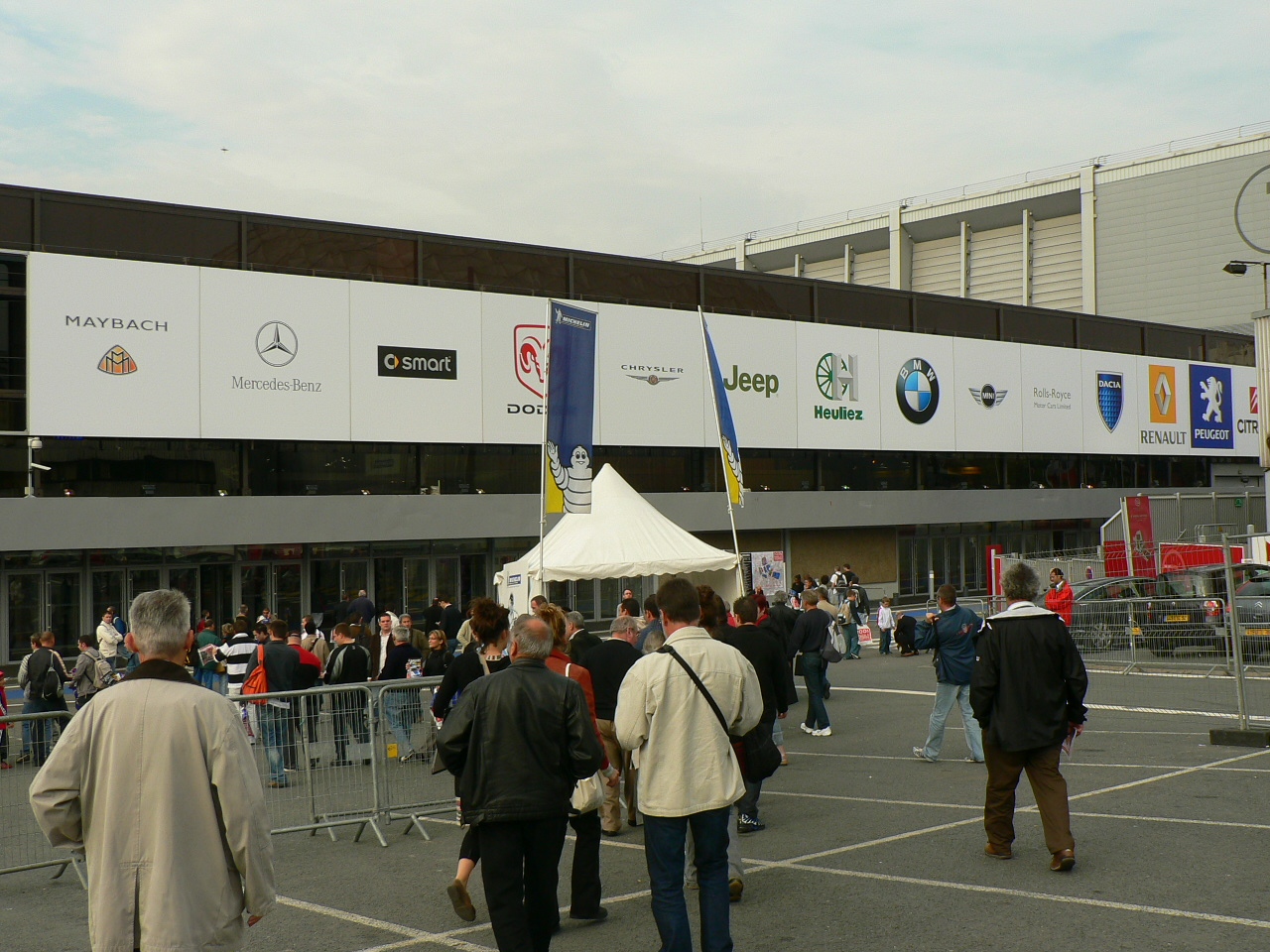 2006 Paris Motor Show Hall 1